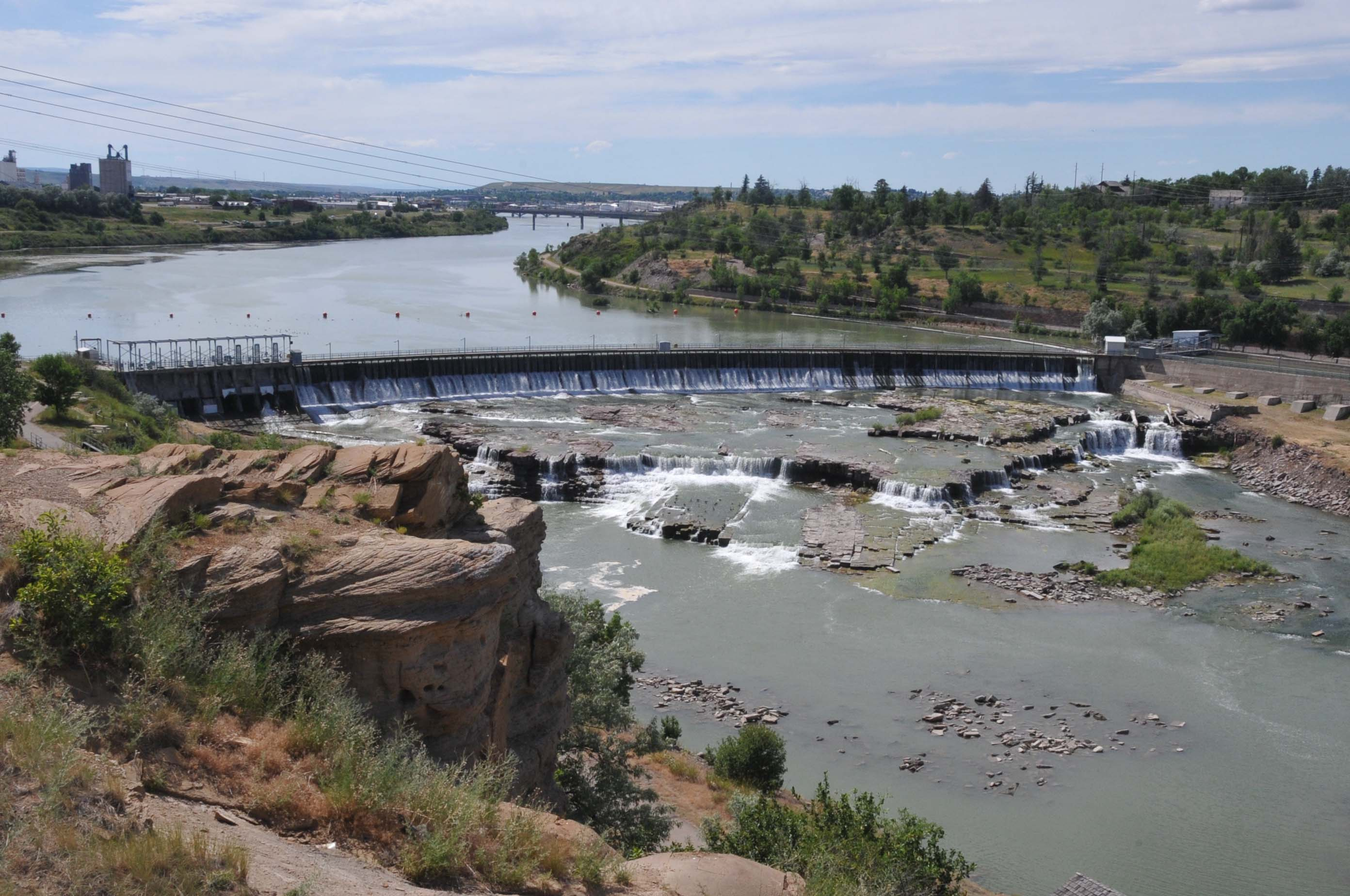 LOCATED IN GIANT SPRINGS STATE PARK. A SERIES OF DAMS HAS ALTERED THE LANDSCAPE DRASTICALLY SINCE LEWIS AND CLARK PORTAGED HERE. THE MISSOURI HAD A SERIES OF WATERFALLS NOW REDUCED TO SMALL WATERFALLS AND ROCKY OUTCROPPINGS. A LARGE EXCELLENT MUSEUM HAS BEEN BUILT IN THE PARK DETAILING LEWIS AND CLARKS EXPEDITION.